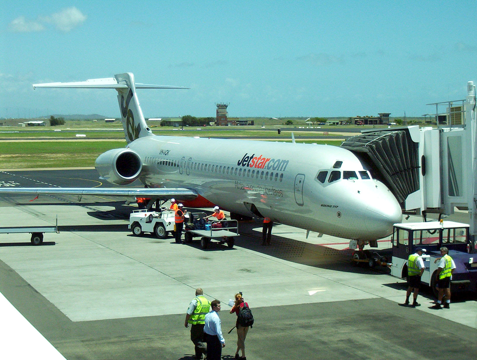 Jetstar's Inaugural Townsville Flight, Boeing 717-200 VH-VQK, docked at Gate 4 at Townsville Airport.